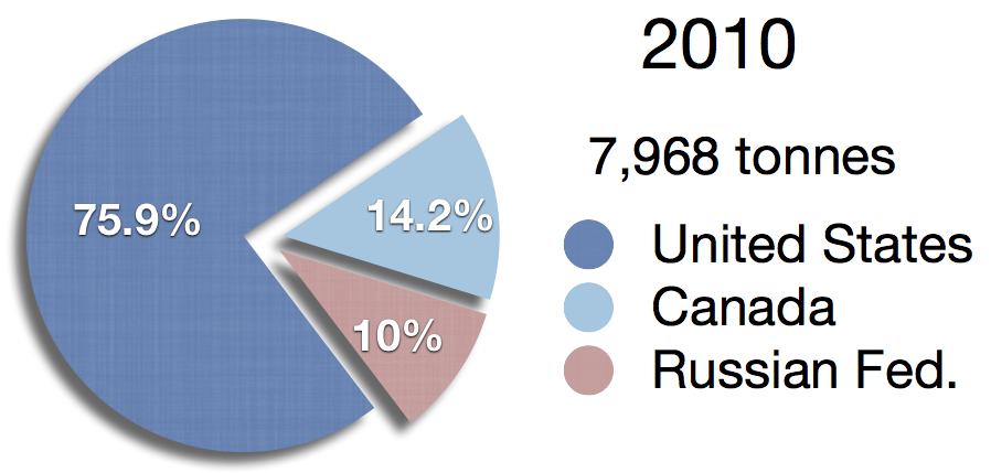 Wild capture of Chinook salmon, Oncorhynchus tshawytscha, in thousand tonnes from 1980 to 2010 as reported by the FAO. Based on data sourced from the FishStat database